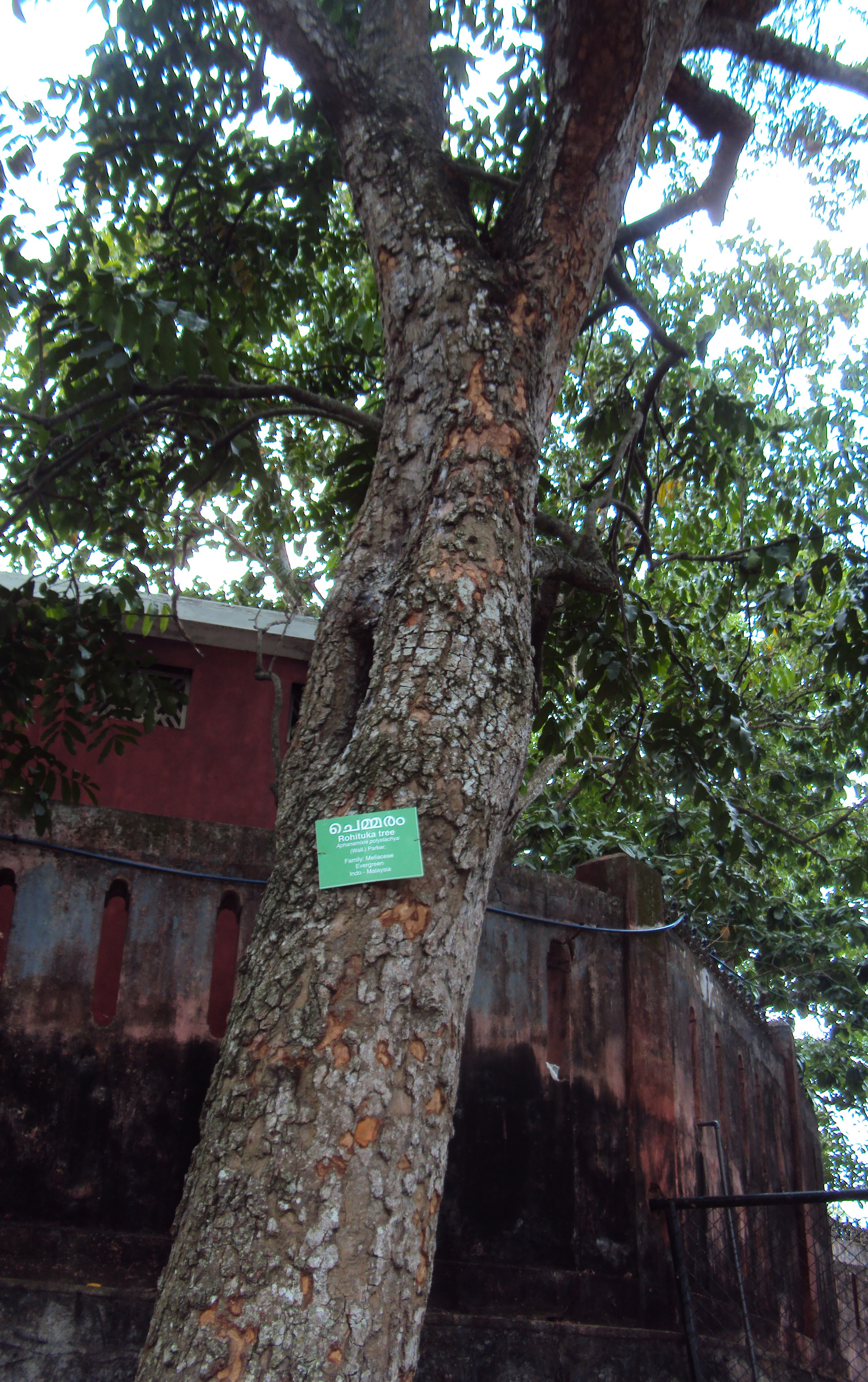 Aphanamixis polystachya, aka Aglaia polystachya Wall. & Amoora rohituka